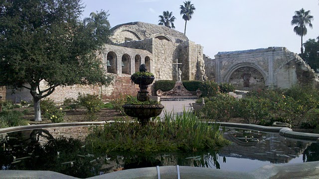 The beautiful ruins of Mission San Juan Capistrano